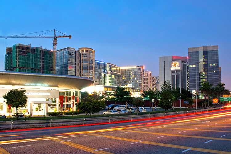 The commercial center of Subang Jaya at dusk.